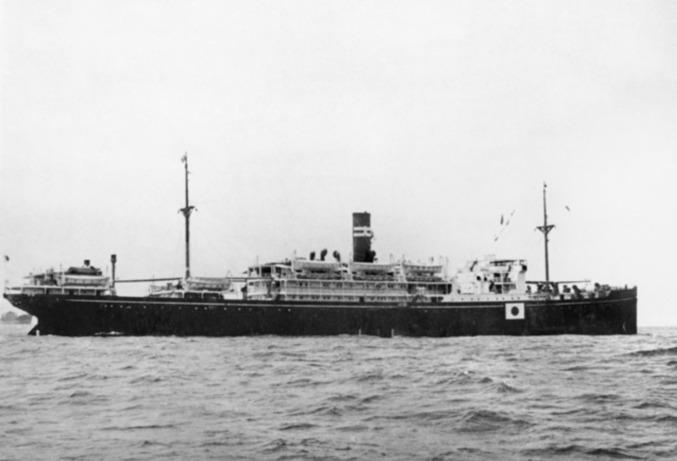 Black and white photo/view of the starboard side of the OSK Line passenger ship MV Montevideo Maru, about 1941.